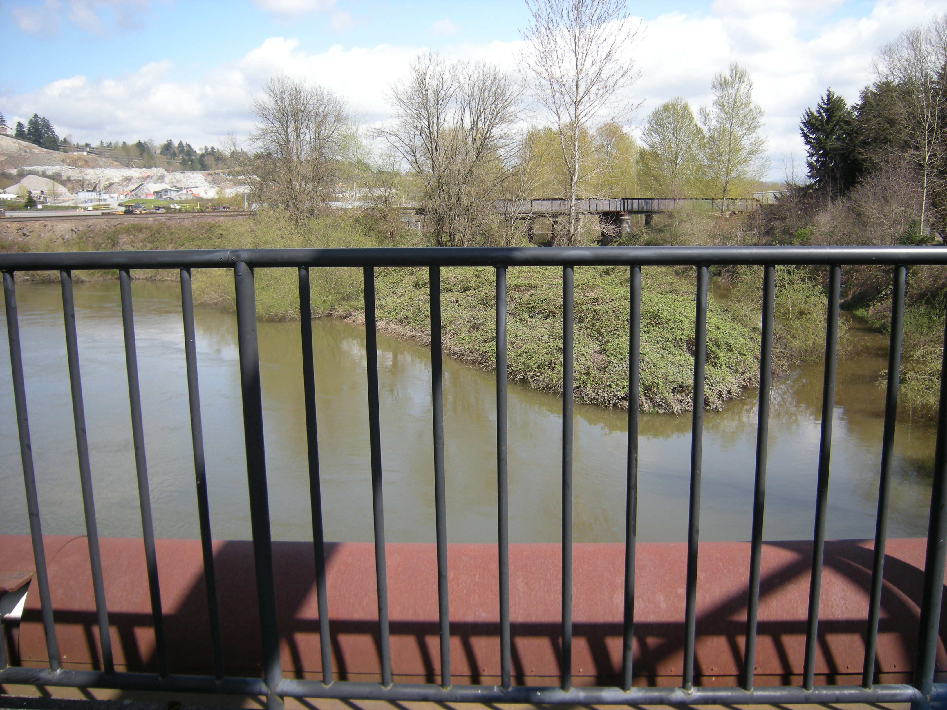 Looking downstream on the Duwamish River and, at right, upstream on the Black River from Fort Dent Pedestrian Bridge, Tukwila, Washington. This bridge carries the Green River Trail across the lowest reach of the Green River. Just below the bridge is the confluence with the Black River (now little more than a stream and storm drainage) forming the Duwamish River.